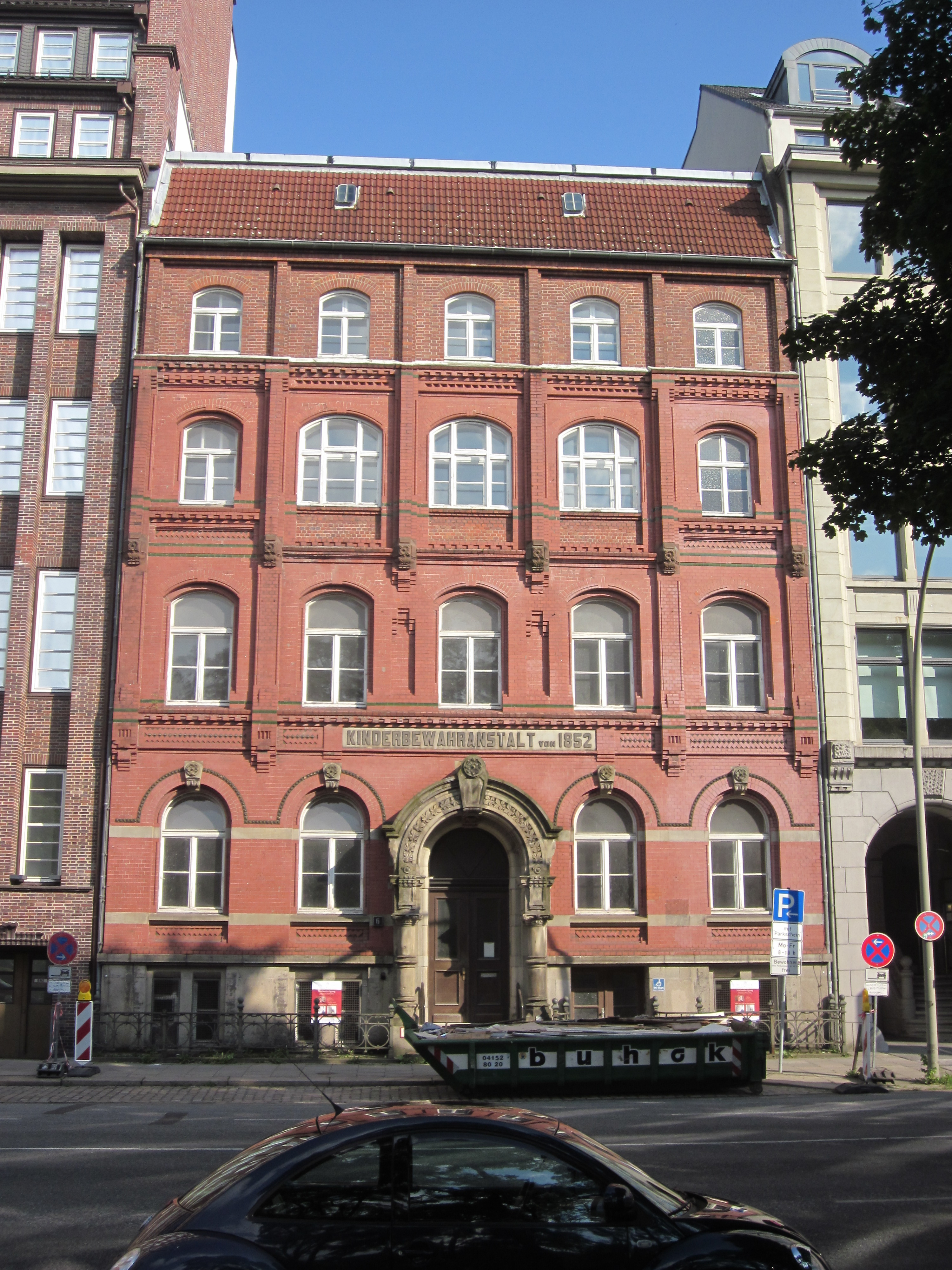 Hamburg, Neustadt, Kinderbewahranstalt